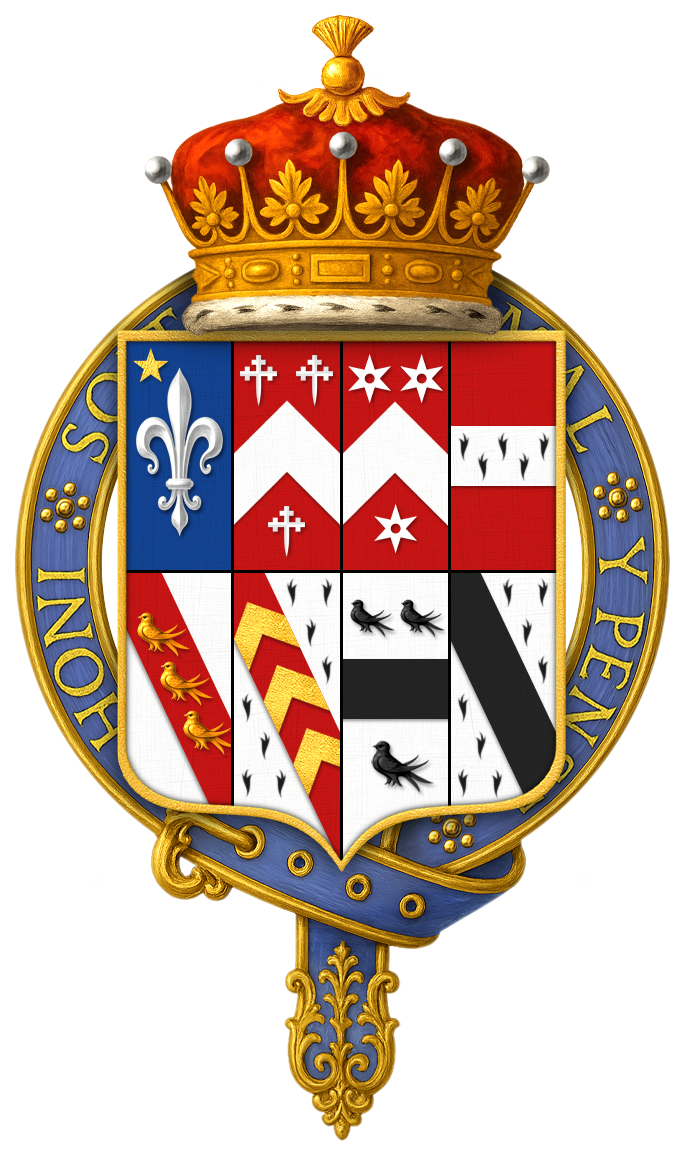 Quartered arms of George Digby, 2nd Earl of Bristol, KG. Quarterly of 8: 1:Digby 5:Danvers arms (modern) 6:Bruley